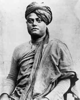 Swami Vivekananda in Trivandrum December 1892